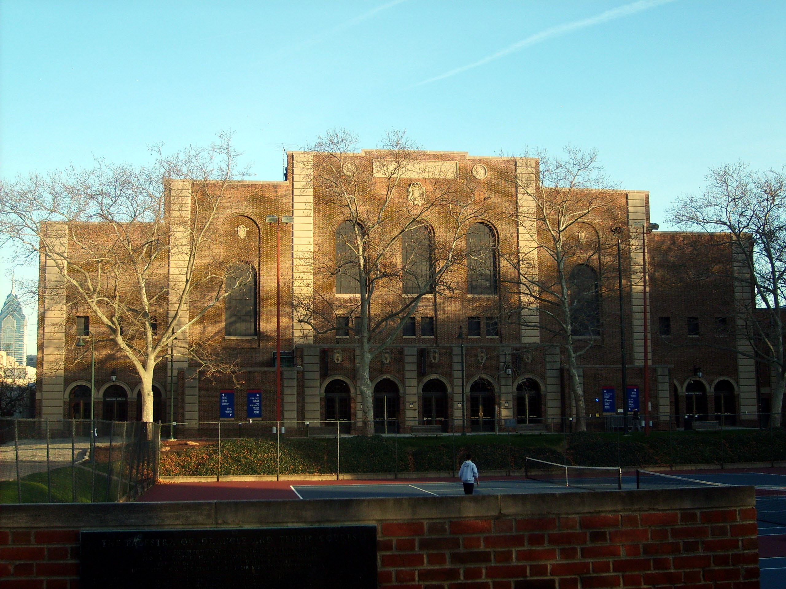 Free to use